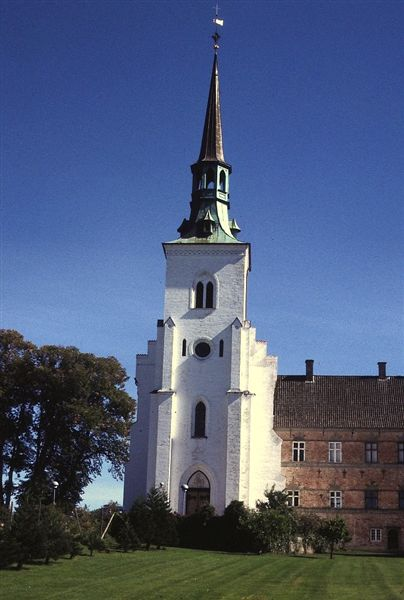 Brahetrolleborg Church in Faaborg-Midtfyn Kommune from apr. 1200